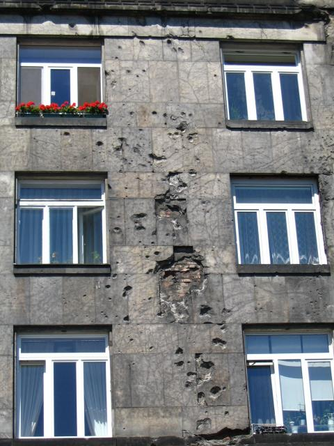 Bullet holes on the walls of one of the houses in downtown Warsaw still visible after the Warsaw Uprising The holes are most probably a remnant of a German tank shell hitting the building. The narrow, darker veins seen on the stone wall are shapes of woodbine that once covered it and was burnt during the Uprising.